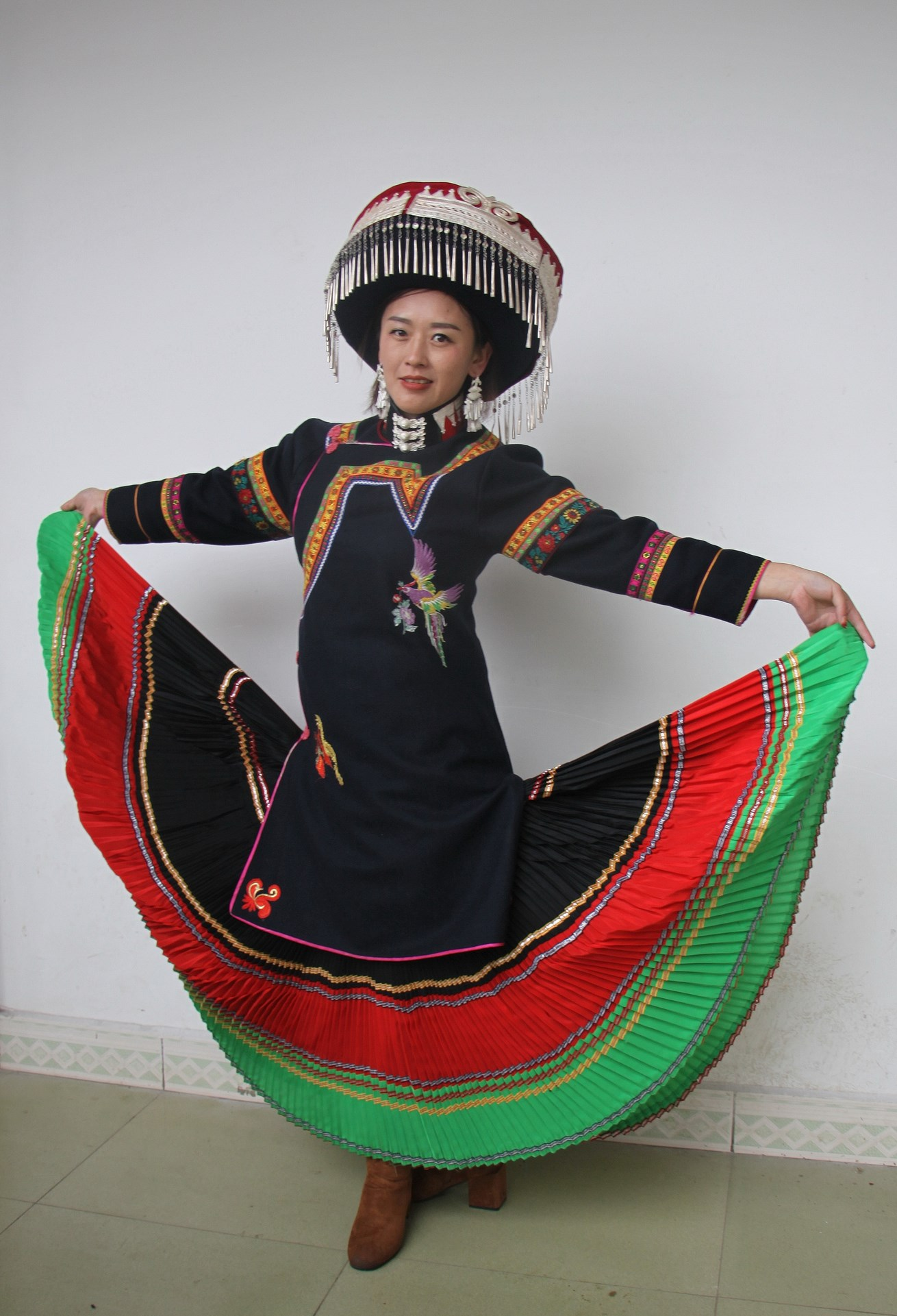 00 Yi minority in traditional .